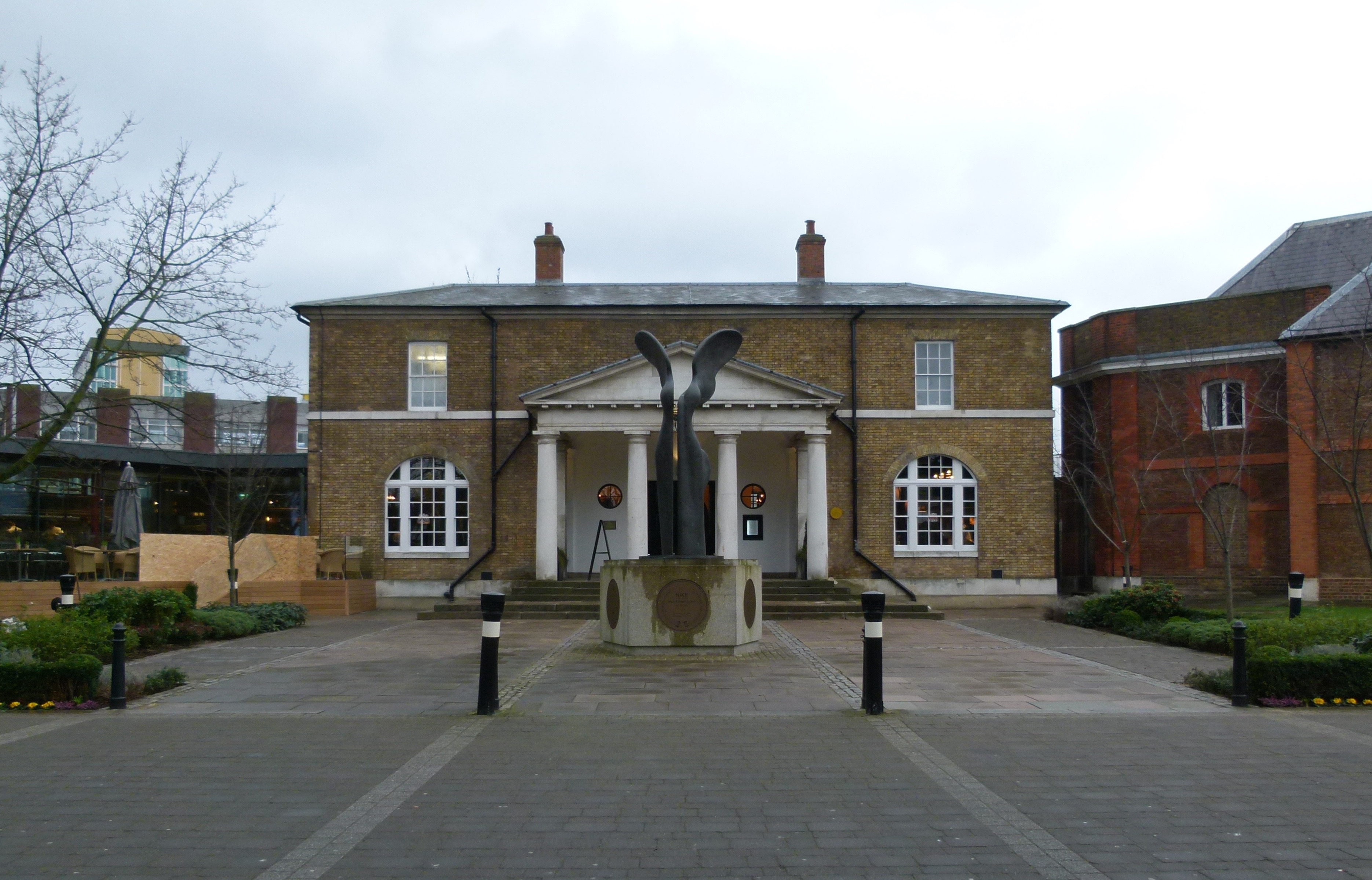 View of No 1 Street and the Main Guardhouse of the Royal Arsenal, Woolwich, southeast London, UK. The grade II-listed building is currently in use as a pub.